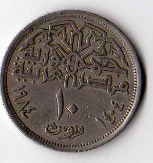 10 Egyptian piastres minted in 1984